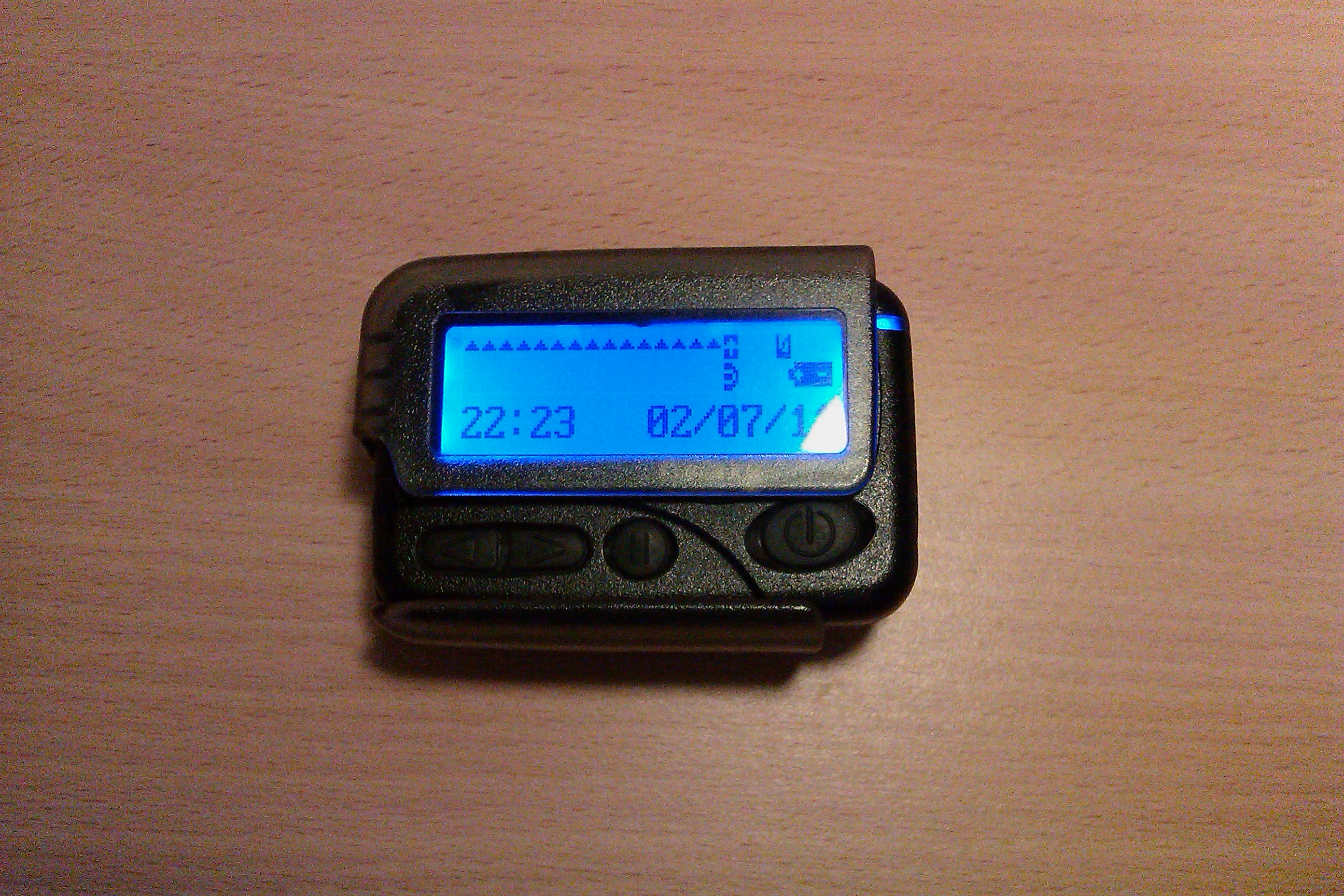 The Galaxy pager, used by the Dutch emergency services.